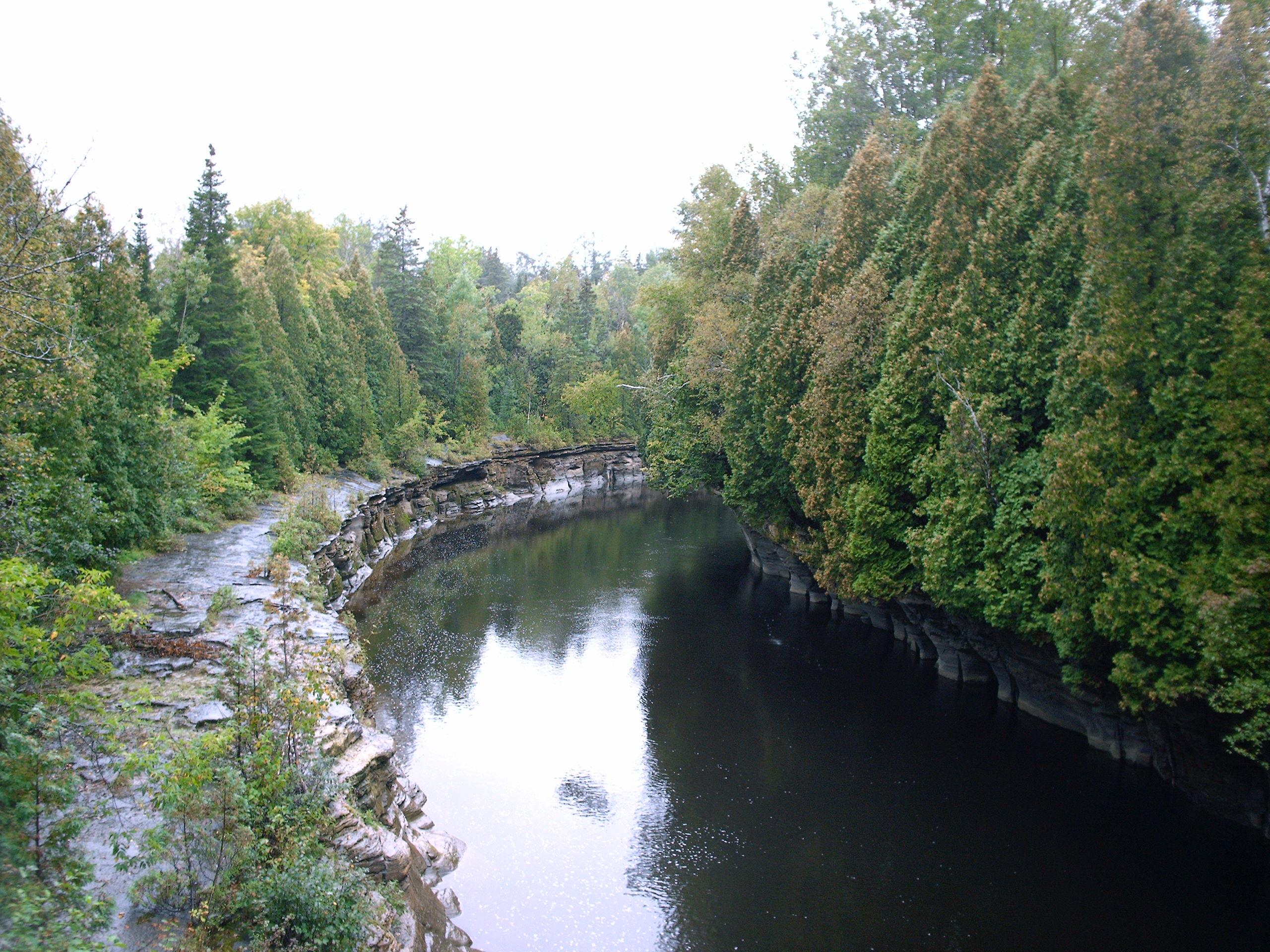 Rivière Ste-Anne (Sainte-Anne River), upstream of St-Casimir.